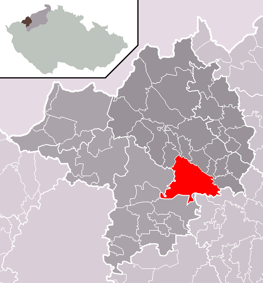 Location of Březno municipality within Chomutov District and administrative area of Chomutov as a Municipality with Extended Competence.